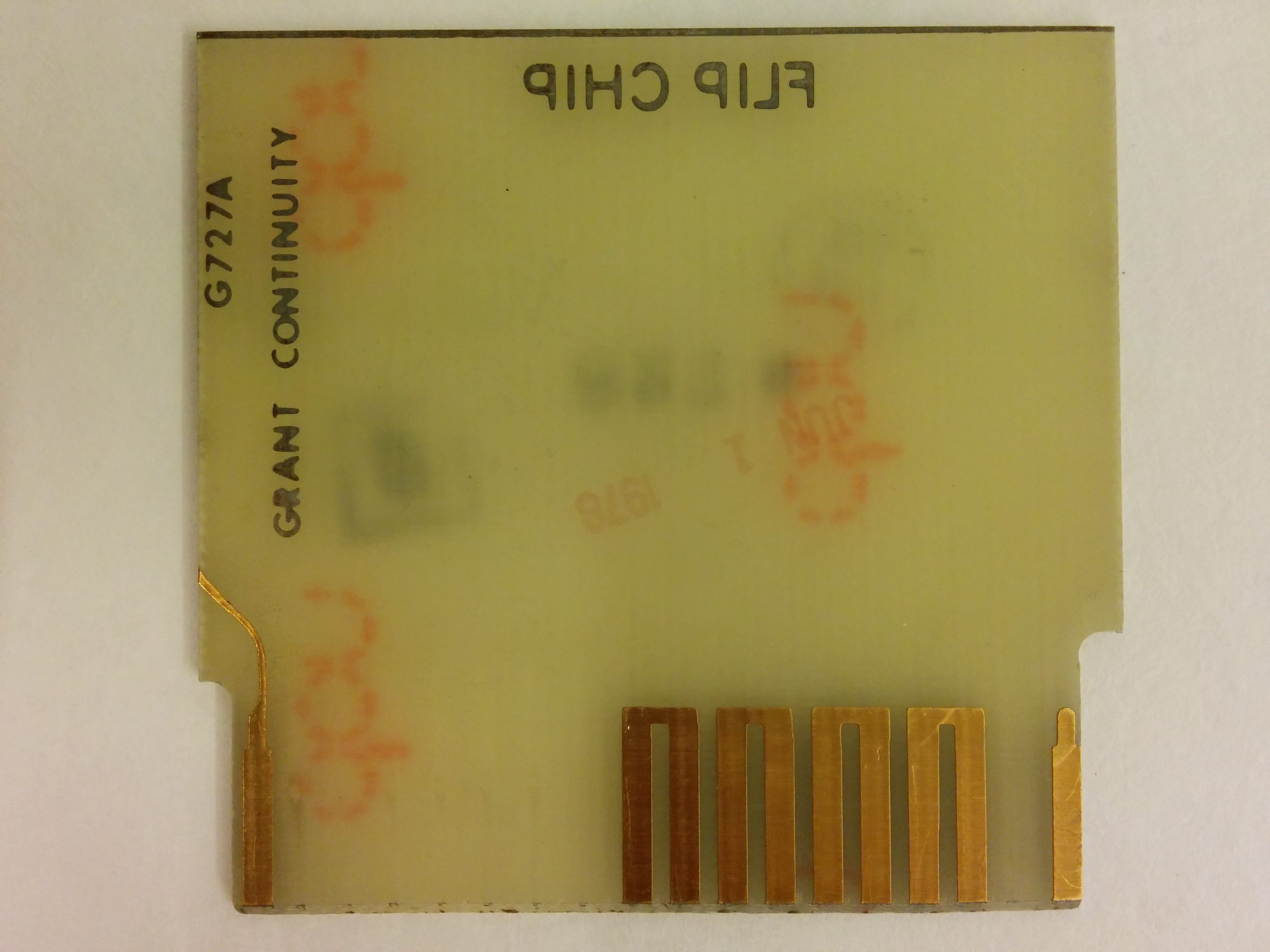 Unibus grant continuity card used to propagate interrupt signals to the next slot.